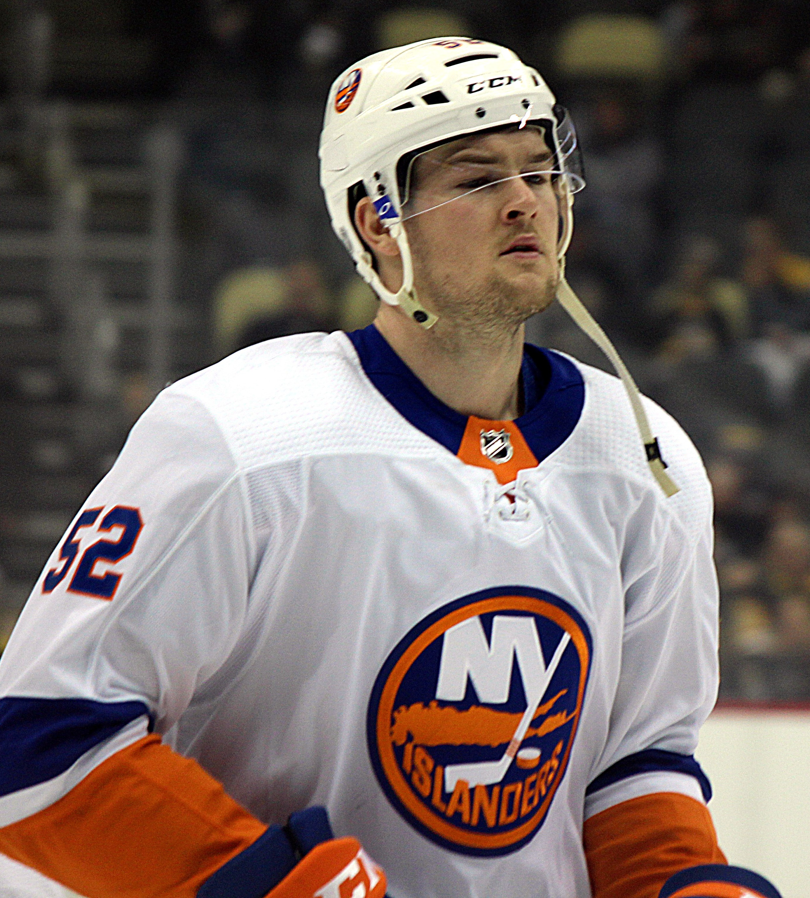 New Yorks Islanders forward Ross Johnston during a game against the Pittsburgh Penguins at PPG Paints Arena in Pittsburgh, PA. Saturday, March 3, 2018.